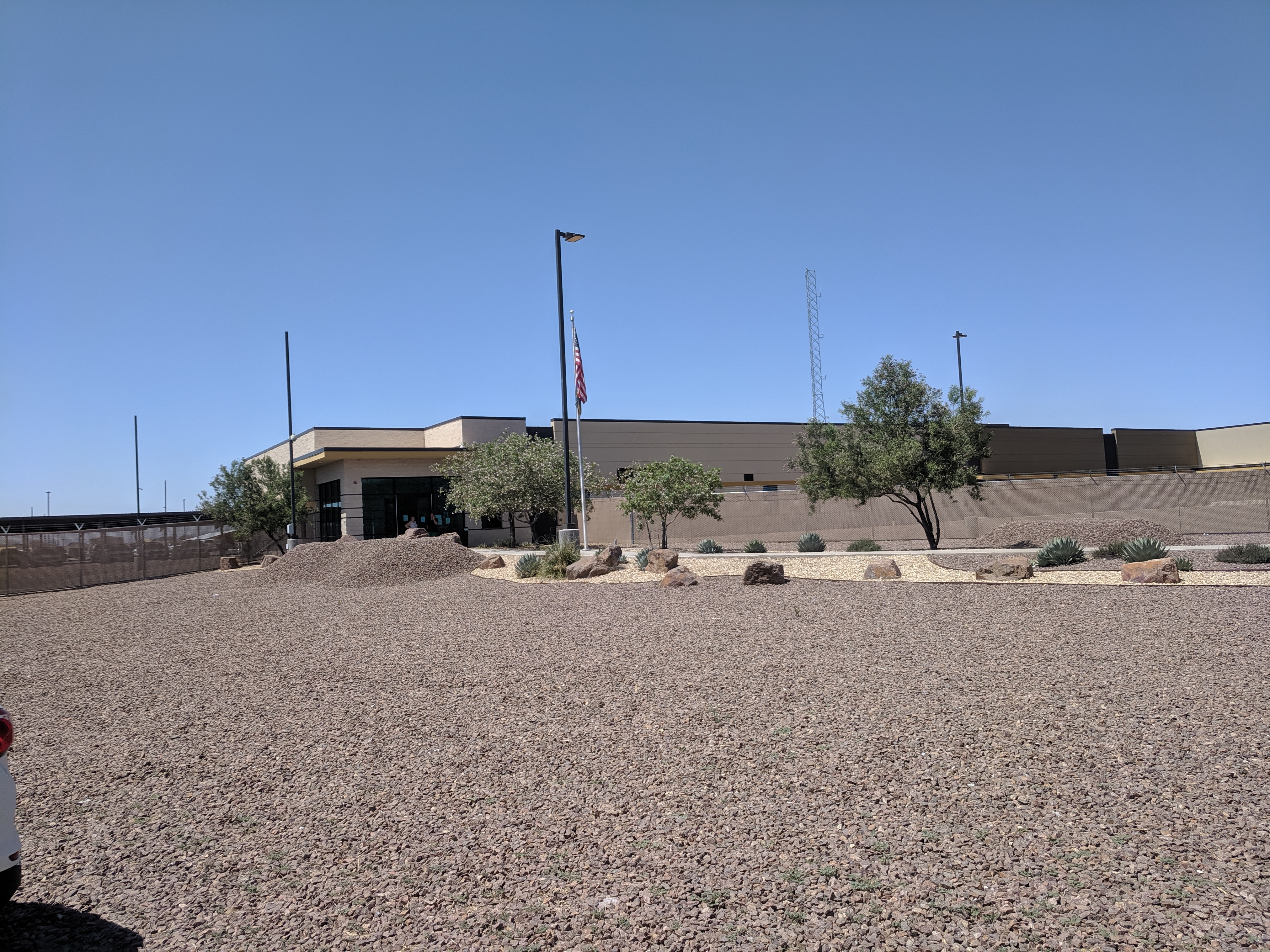 Protest against child detention outside Border Patrol facility in Clint Texas 27 JUN 19